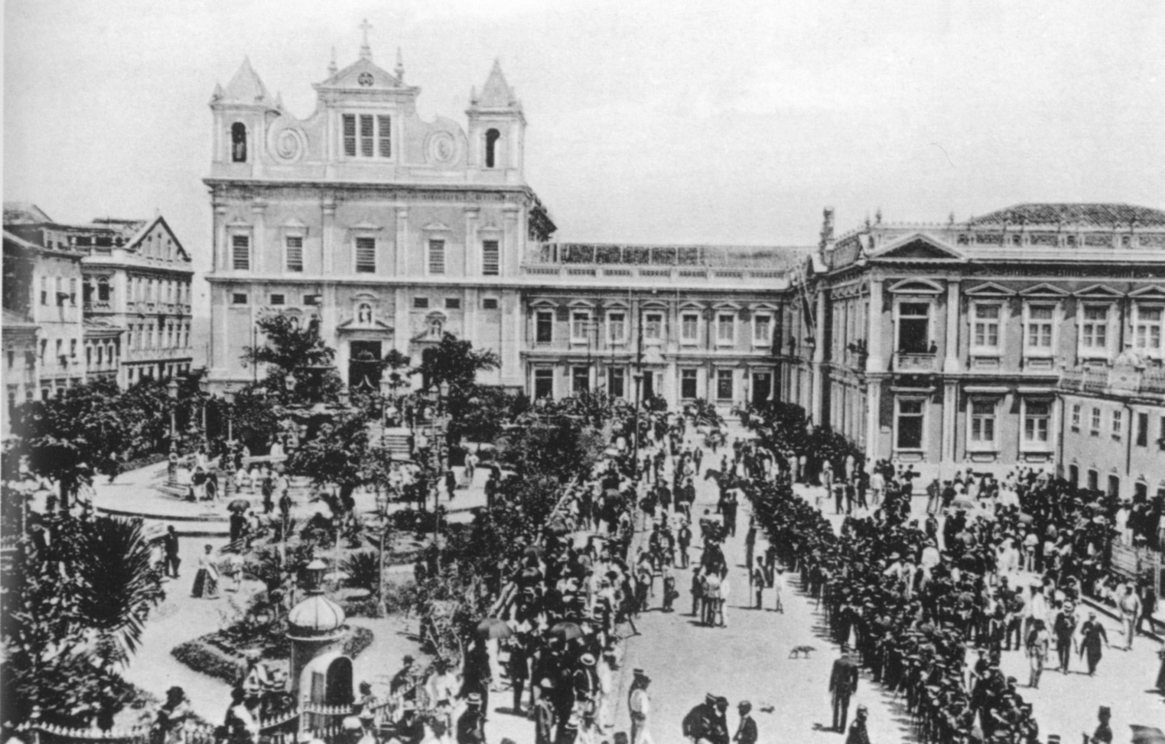 Event held in Terreiro de Jesus (Salvador-Bahia) in 1908.